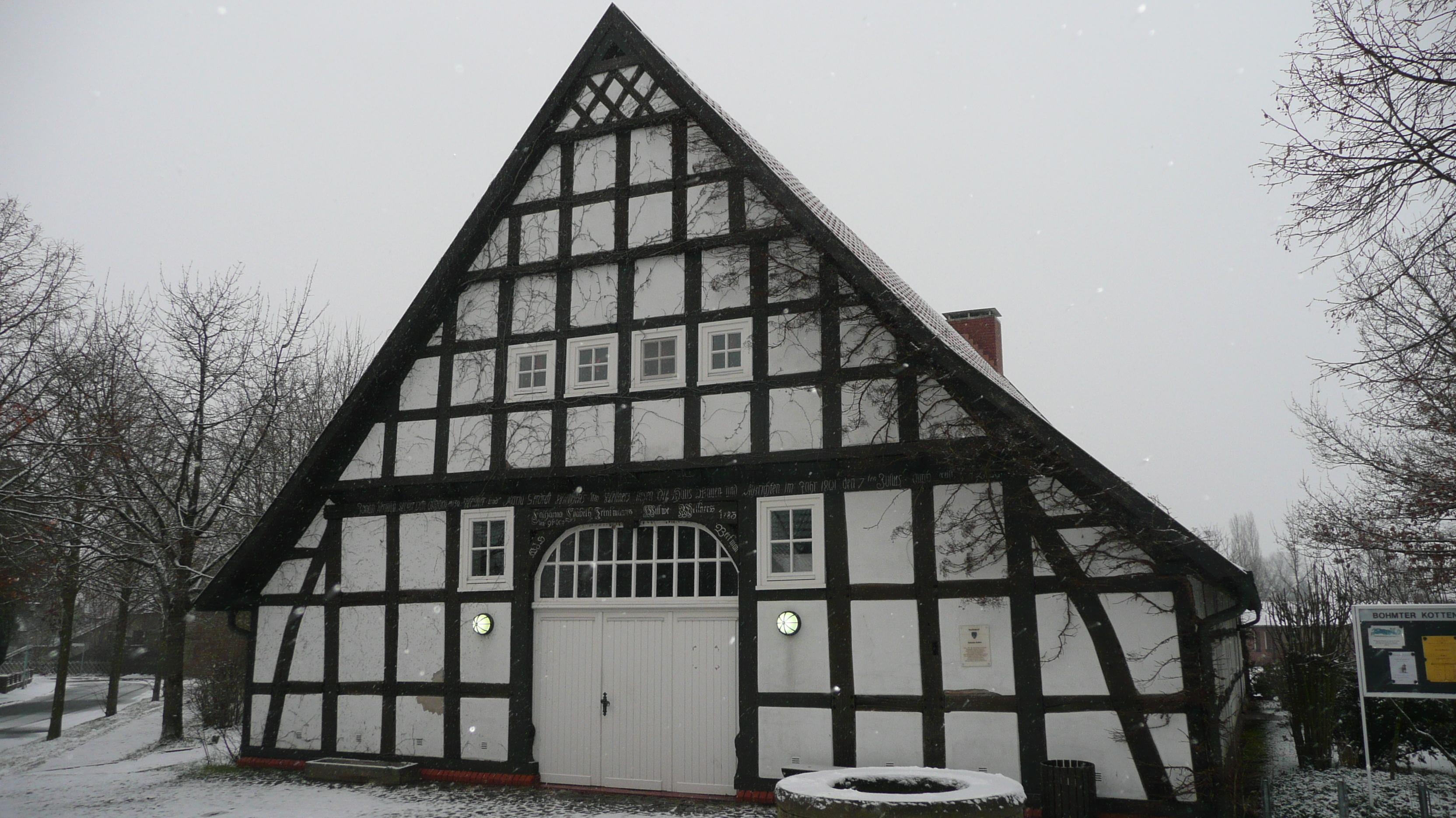 Baudenkmal "Bohmter Kotten", Bohmte, Landkreis Osnabrück, Niedersachsen